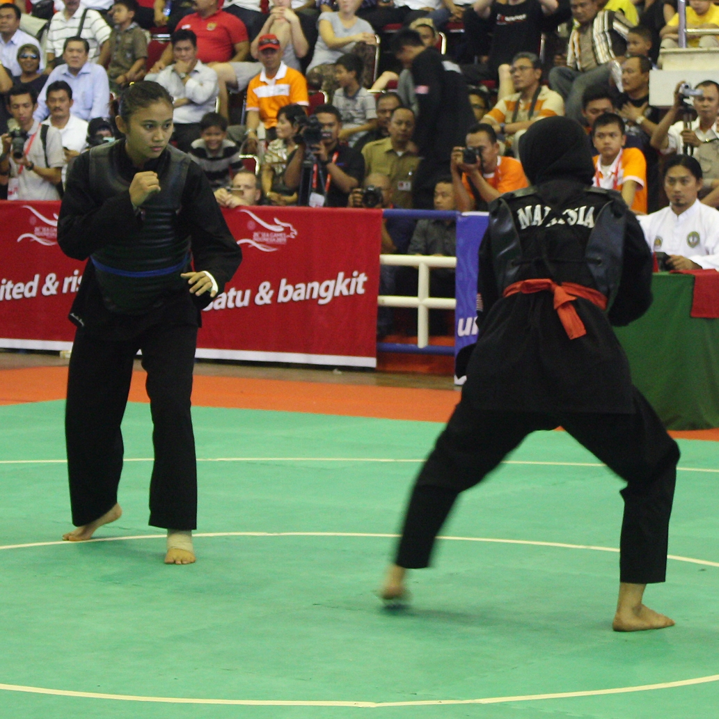 The Pencak Silat final match for category Women Class E 65kg - 70kg. In left Amelia Roring (Indonesia - Gold medal) vs Siti Rahmah Mohamed Nasir (Malaysia - Silver medal). 17 November 2011 in 26th Southeast Asian Games 2011 at Padepokan Pencak Silat Taman Mini Indonesia Indah, East Jakarta, Indonesia.